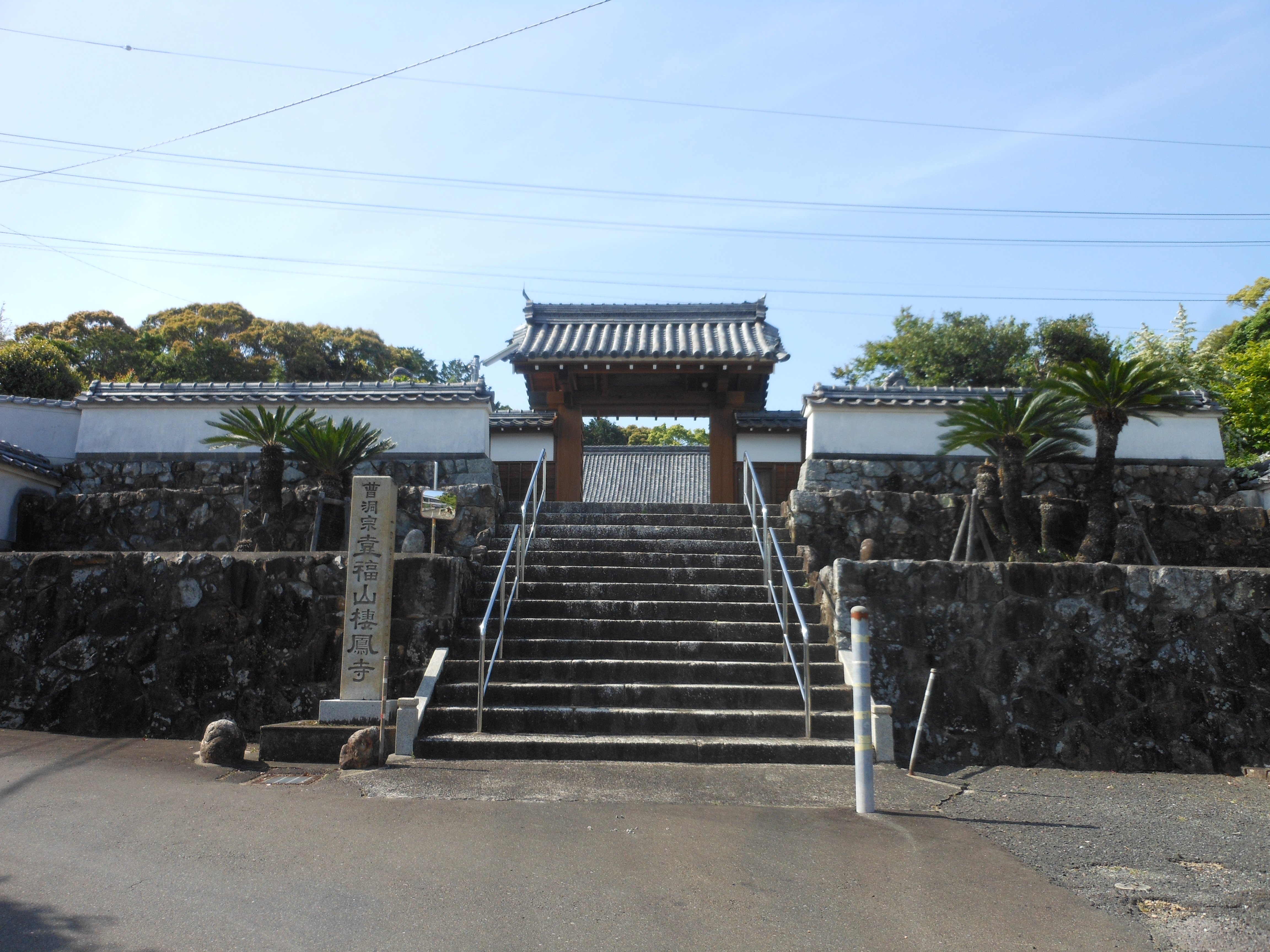 This is a gate of Seiho-ji temple in Shima, Mie, Japan.